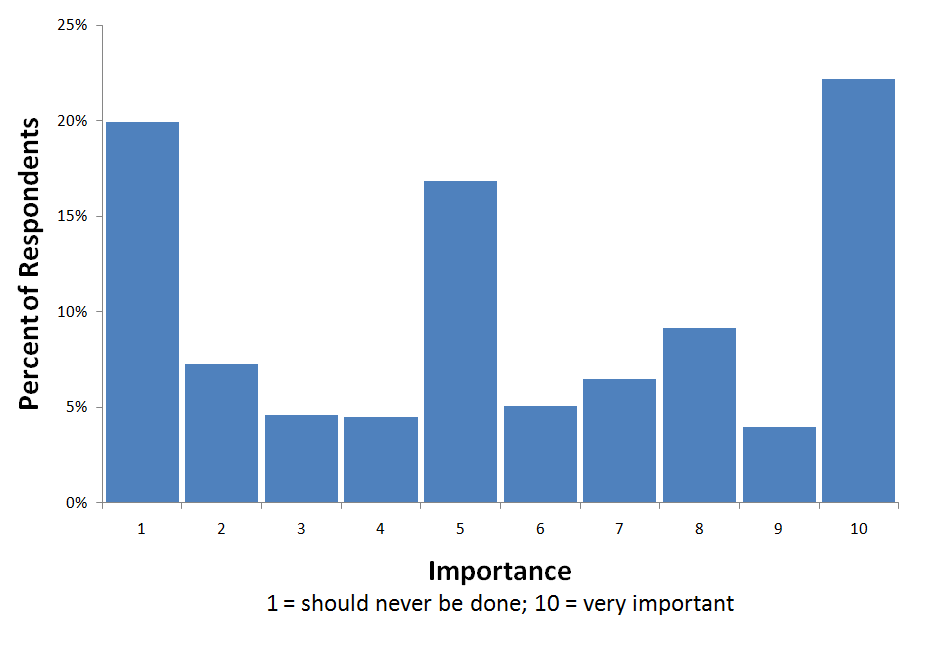 Responses to the statement "Hold a referendum on whether Scotland should be an independent country". Based on the BBC's Priorities for Scotland Survey, which can be found here. Based on 1004 respondents, prepared for BBC Scotland by ICM Research, 5-8th April 2011.